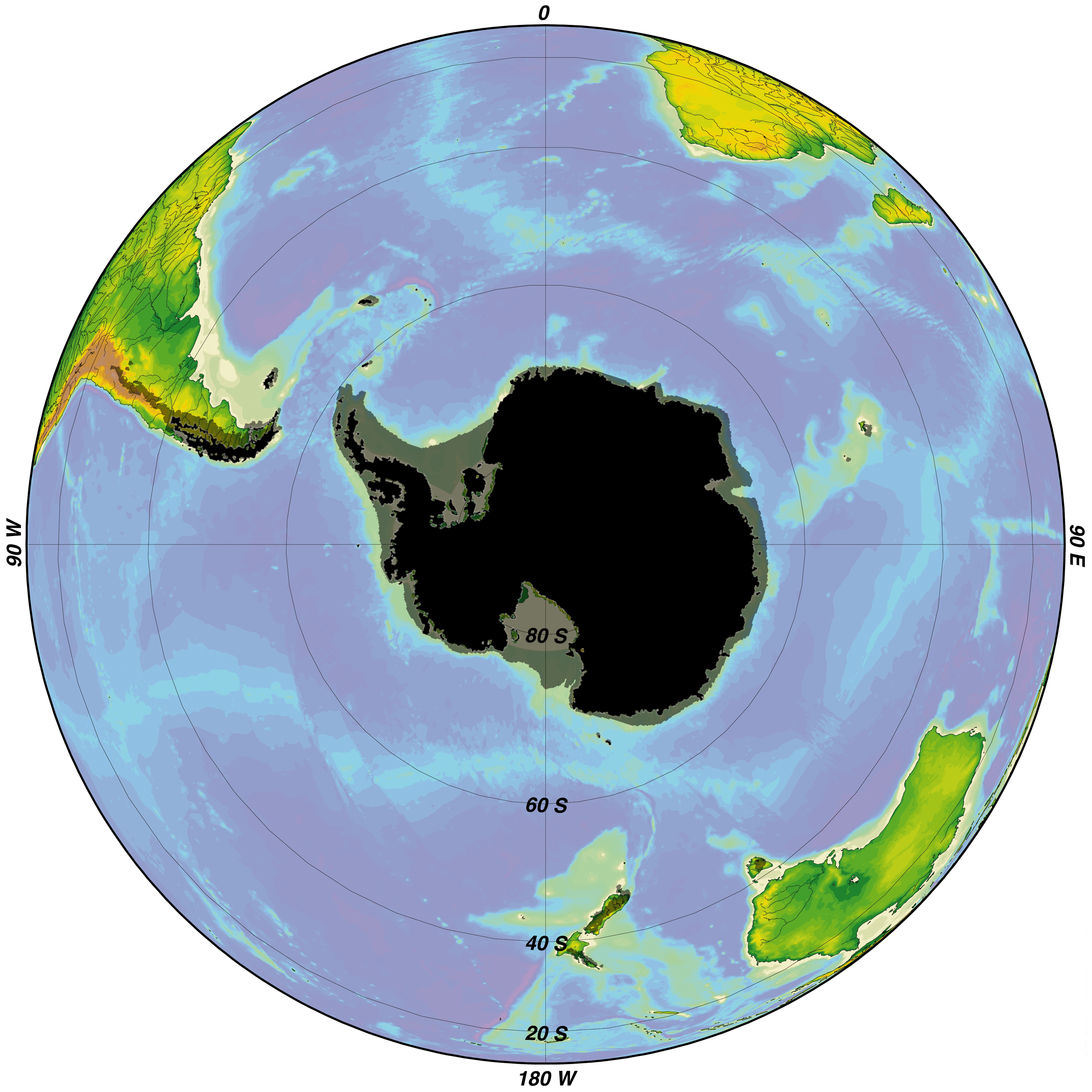 Recent (black) and maximum (grey) glaciation of the southern hemisphere during the Quaternary climatic cycles Ice coverage: J. Ehlers & P.L. Gibbard: The extent and chronology of Cenozoic global glaciation. Quaternary International, 164-165, 6-20, 2007 Topography: U.S. Department of Commerce, National Oceanic and Atmospheric Administration, National Geophysical Data Center (NOAA/NGDC), 2-minute Gridded Global Relief Data (ETOPO2) 2006 Map software: Schlitzer, R., Ocean Data View, 2007